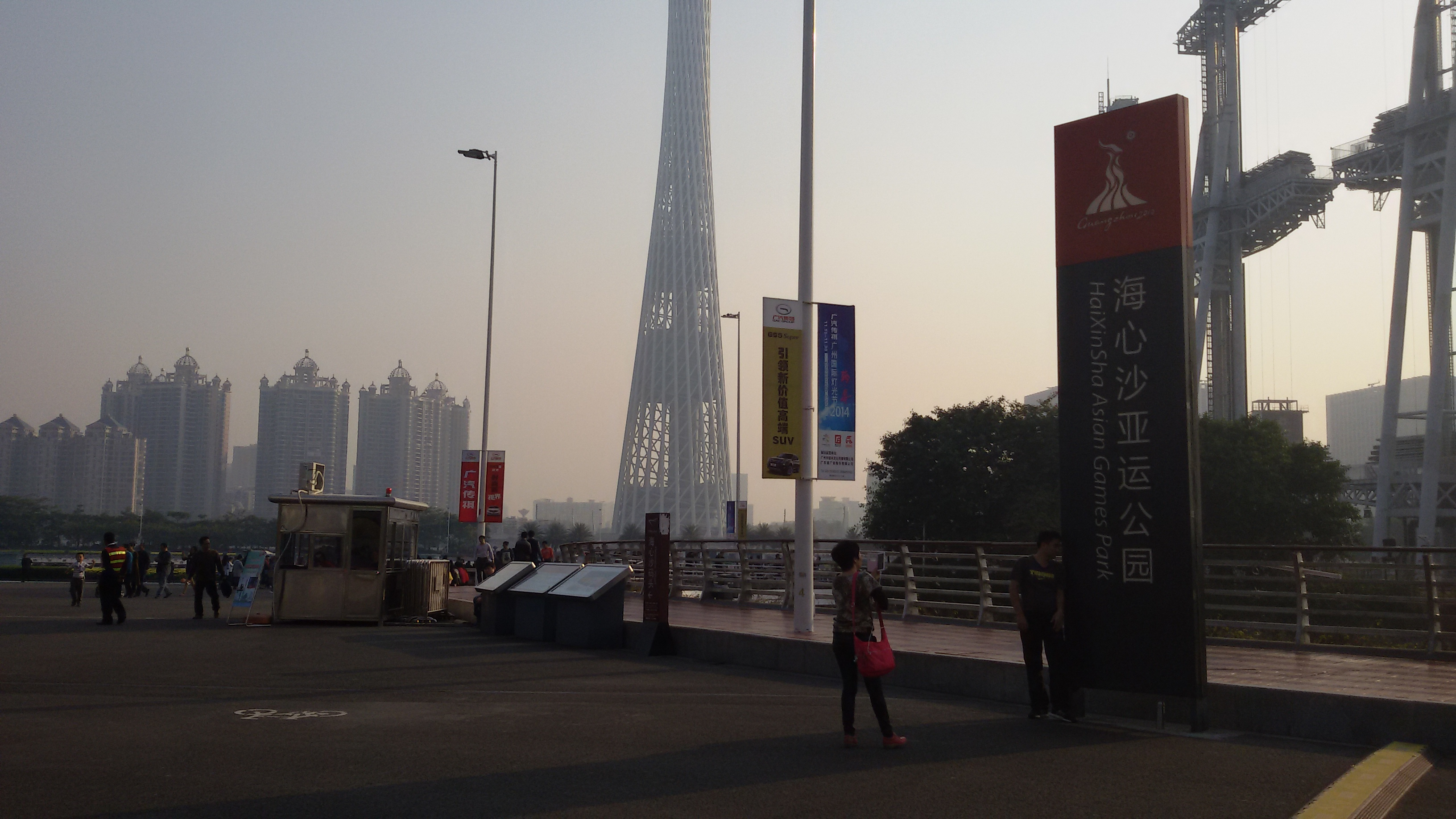 Haixinsha Asian Games Park (Main Gate)